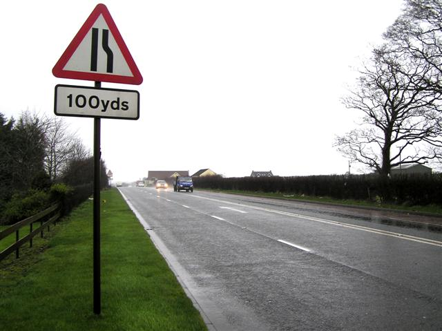 Road at Aghadavy The busy A26 which links the M1 to the Belfast International Airport.